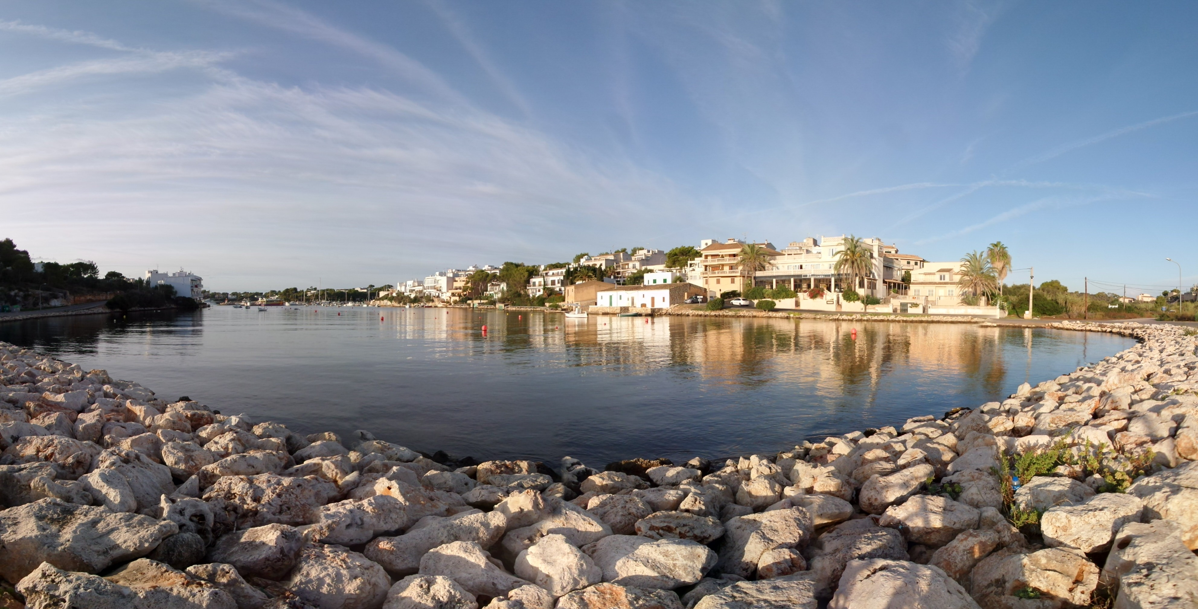 Sa Platja de Portopetro (Bay)